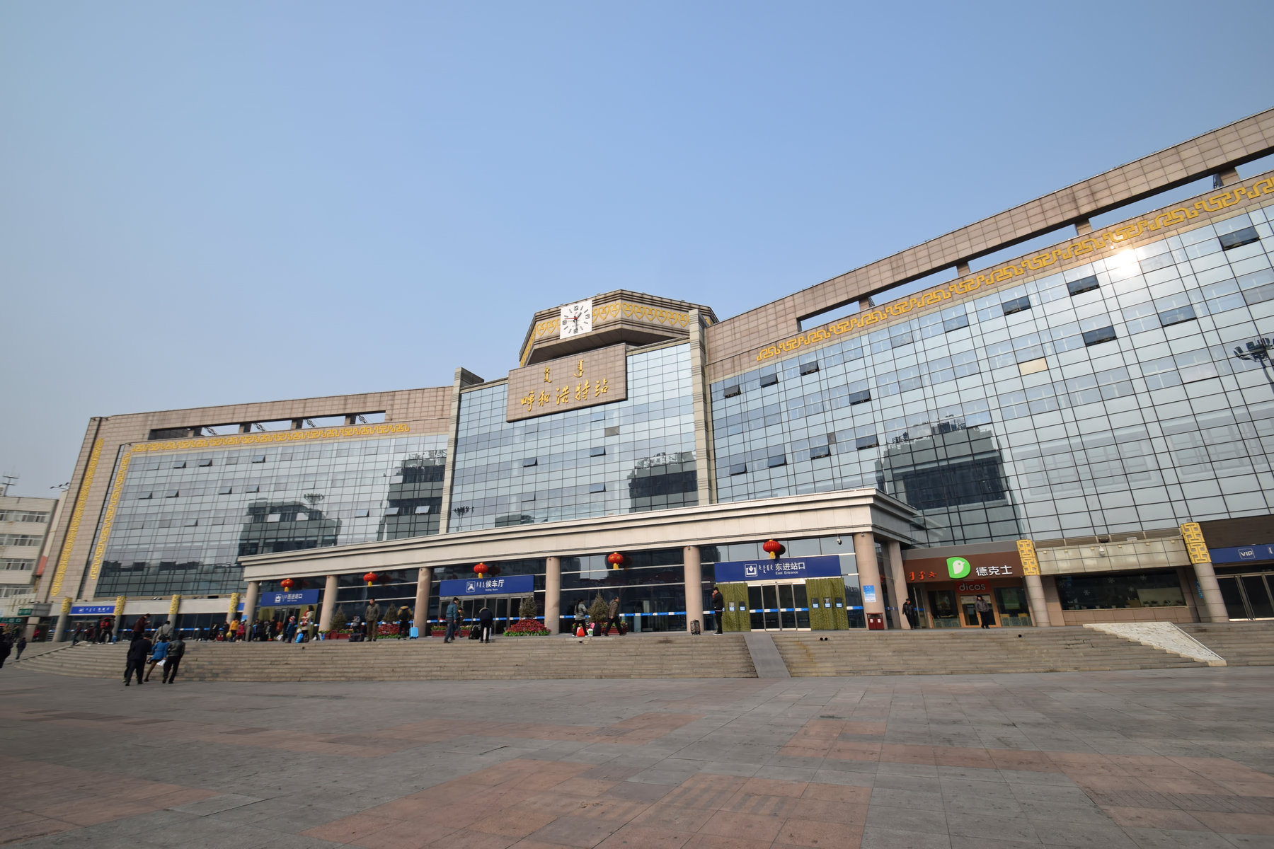 Huhehaote (Hohhot) Railway Station